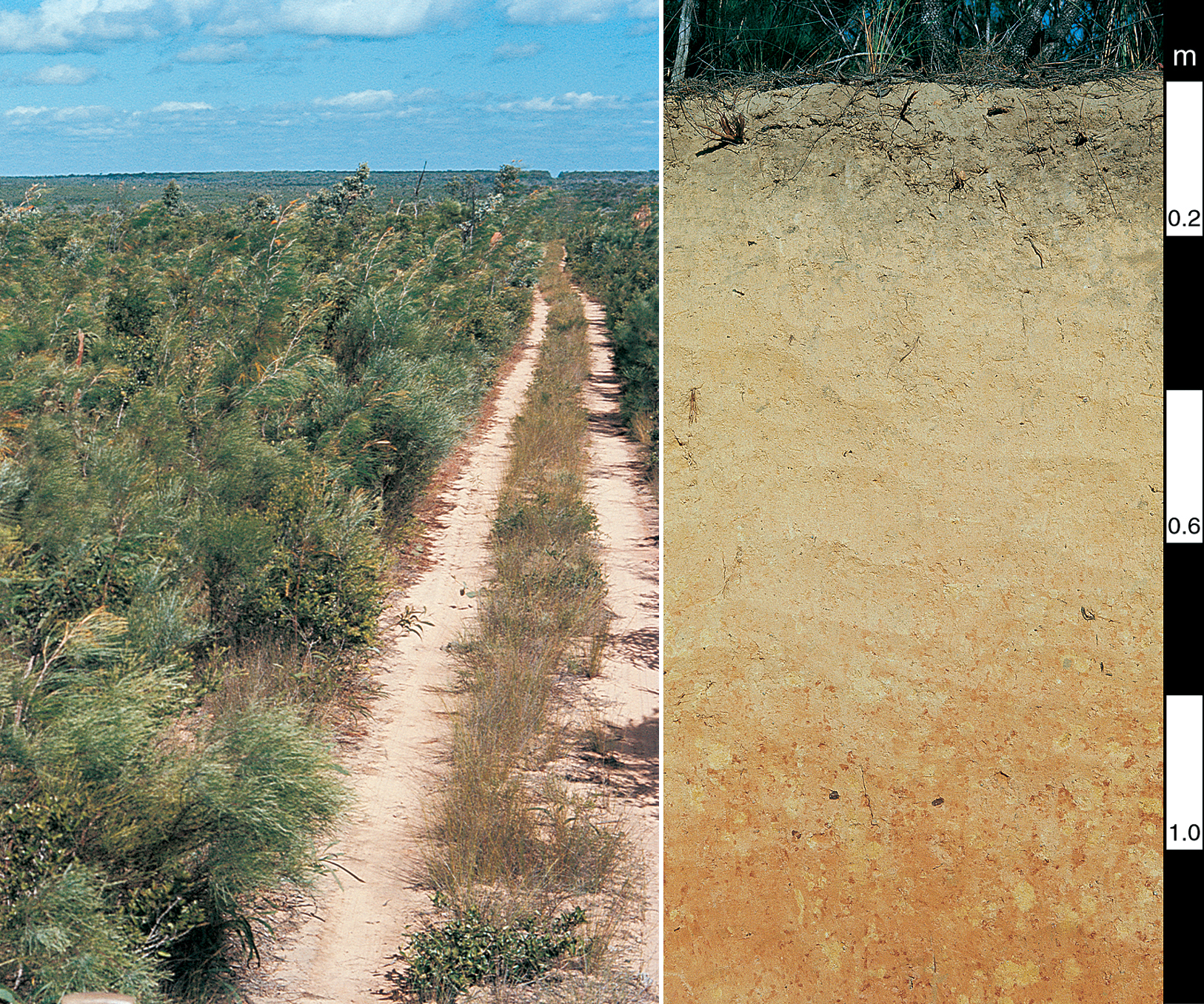 The picture on the right shows a yellow Kandosol soil profile in the Bamaga Reserve, Cape York Peninsula, north Queensland. On the left is a typical landscape showing rolling low rises with closed heath on Cape York Peninsula, far north Queensland. For more information see McKenzie, N. J., Jacquier, D. W., Isbell, R. F. and Brown, K. L. (2004). Australian Soils and Landscapes: an illustrated compendium. 416pp (CSIRO Publishing: Melbourne).